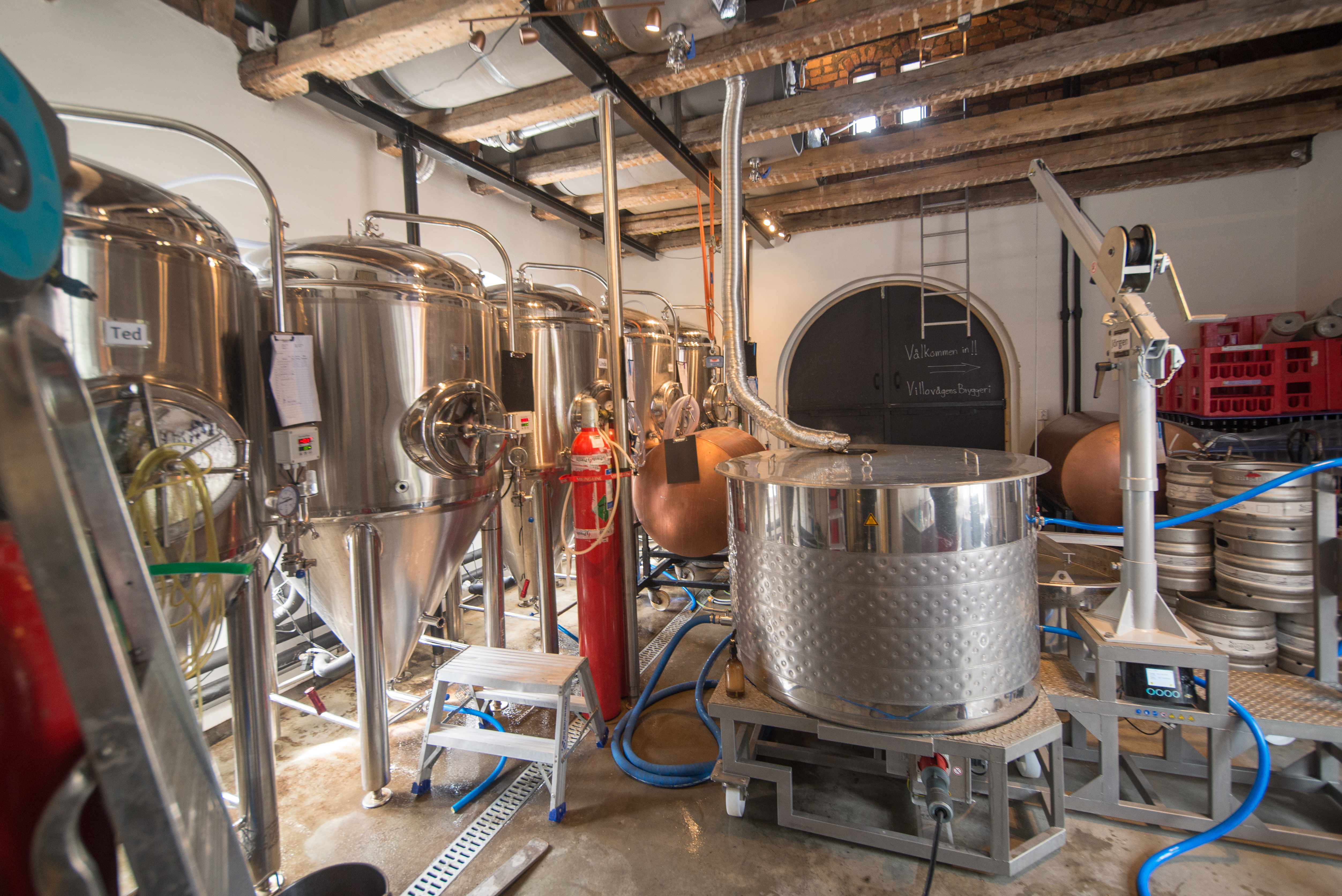 Villovägens micro brewery in Falun, Sweden.